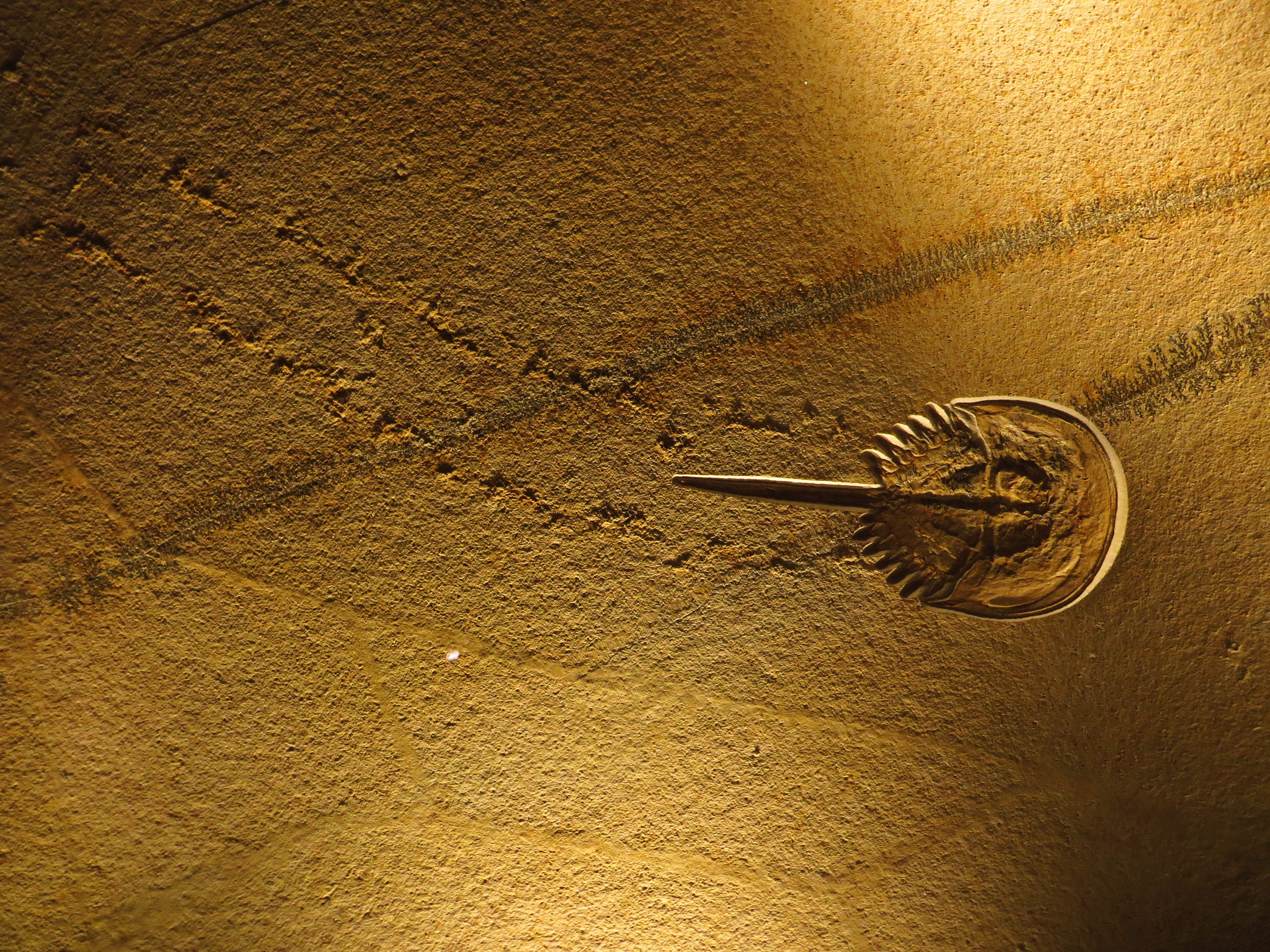 Fossil of Mesolimulus walchi, a horseshoe crab that lived in the Solnhofen archipelago 150 million years ago.